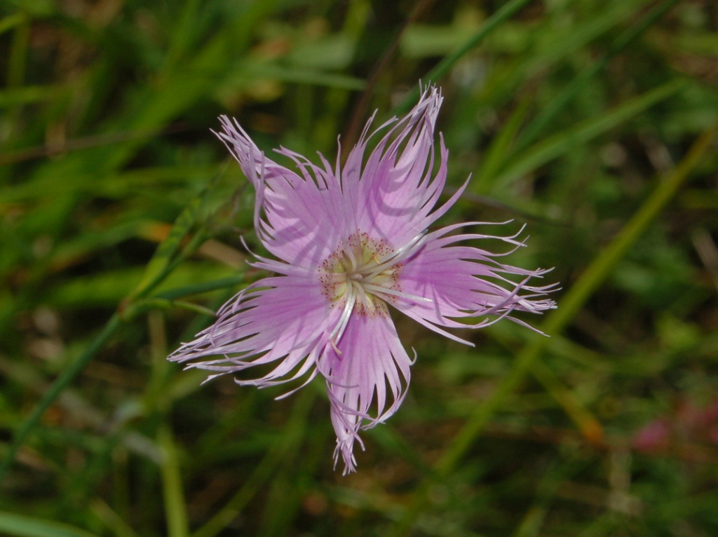 Dianthus monspessulanus - Parco dell'Antola, Genova, Italy